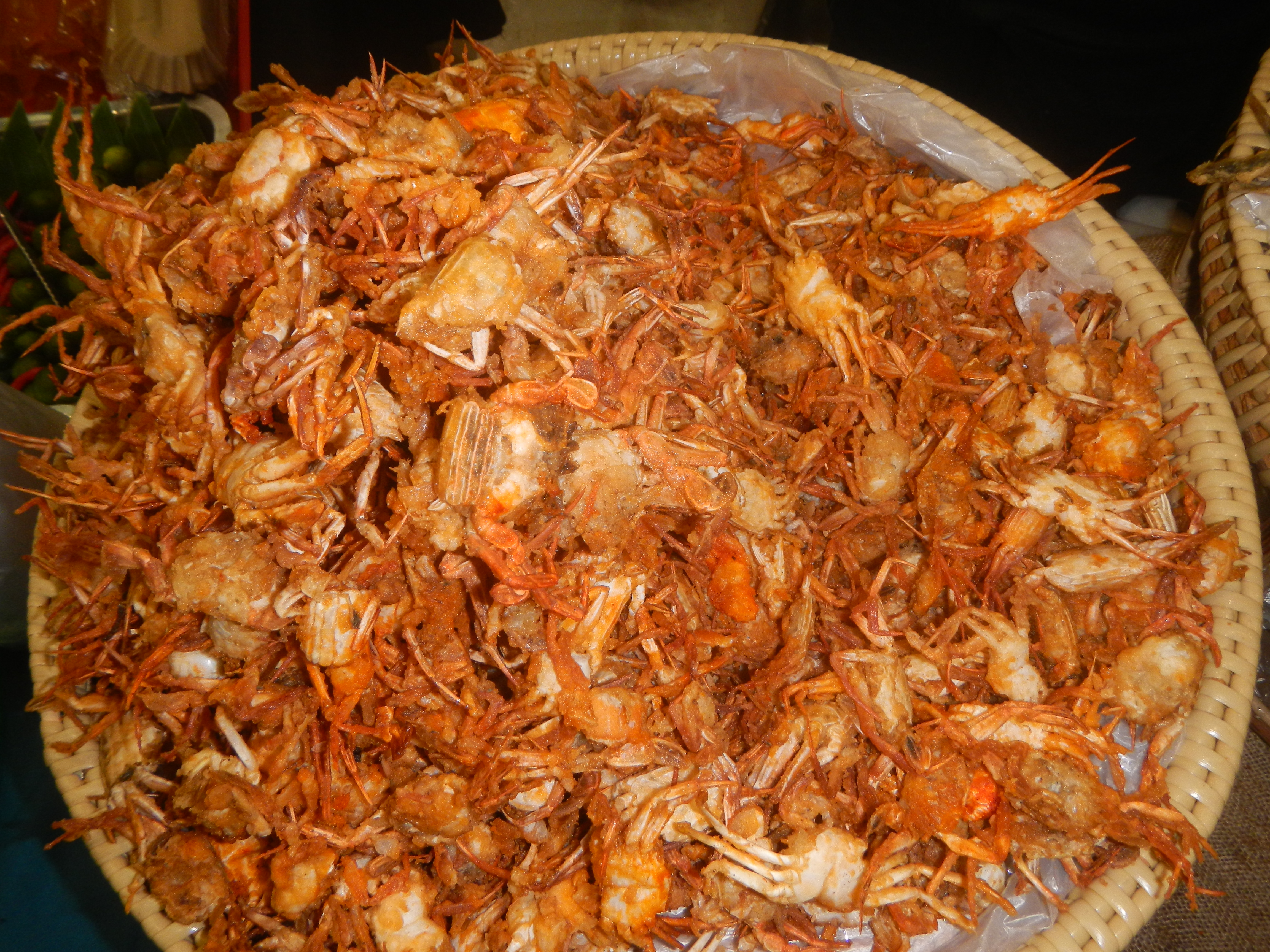 SM Hypermarket Street Food Festival SM City Baliuag SM Hypermarket in Barangay Pagala 14°58'14"N 120°53'26"E Baliuag, Bulacan, Bulacan province (Note: Judge Florentino Floro, the owner, to repeat, Donor Florentino Floro of all these photos hereby donate gratuitously, freely and unconditionally all these photos to and for Wikimedia Commons, exclusively, for public use of the public domain, and again without any condition whatsoever).